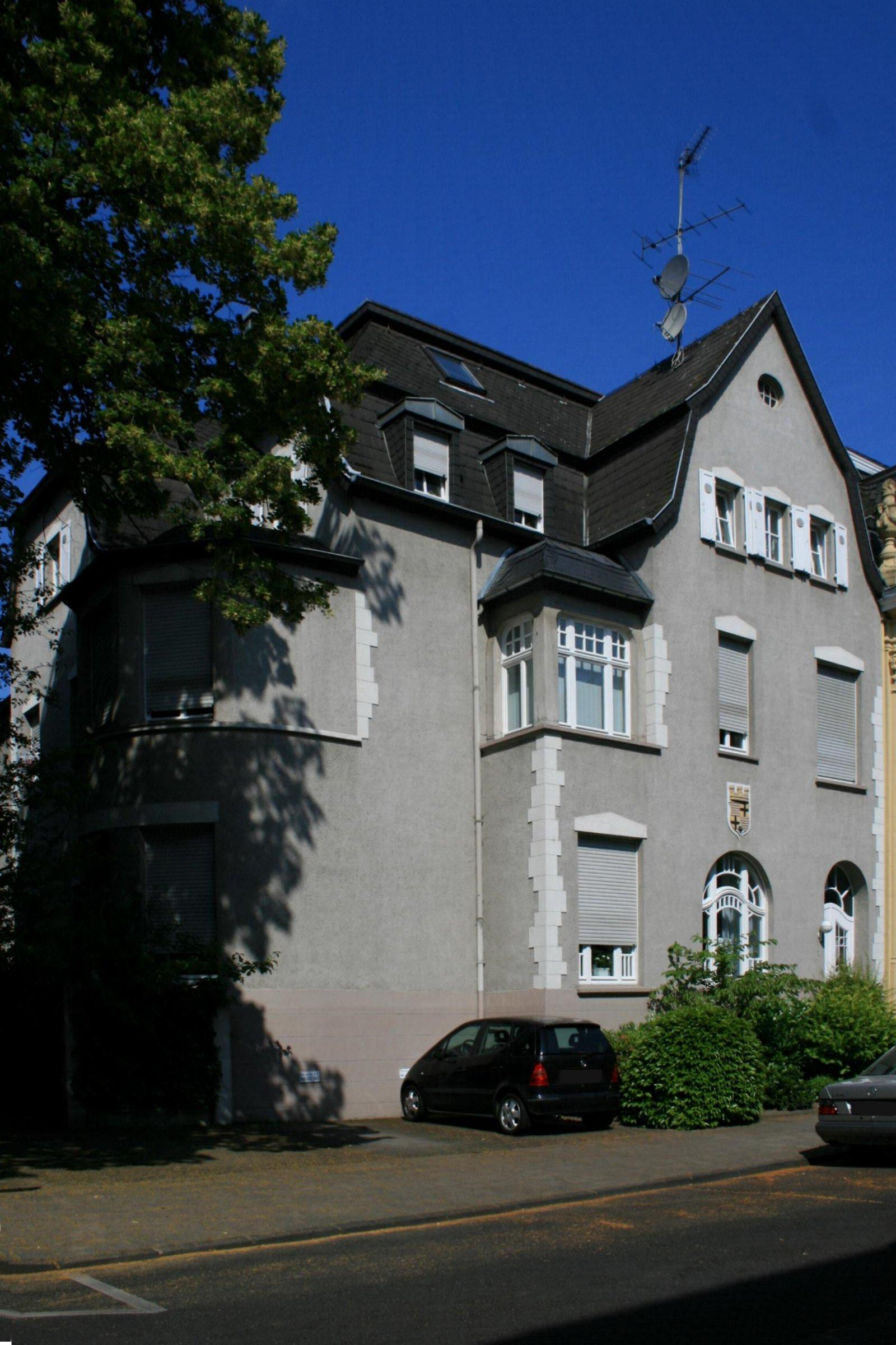 Cultural heritage monument No. O 005 in Mönchengladbach